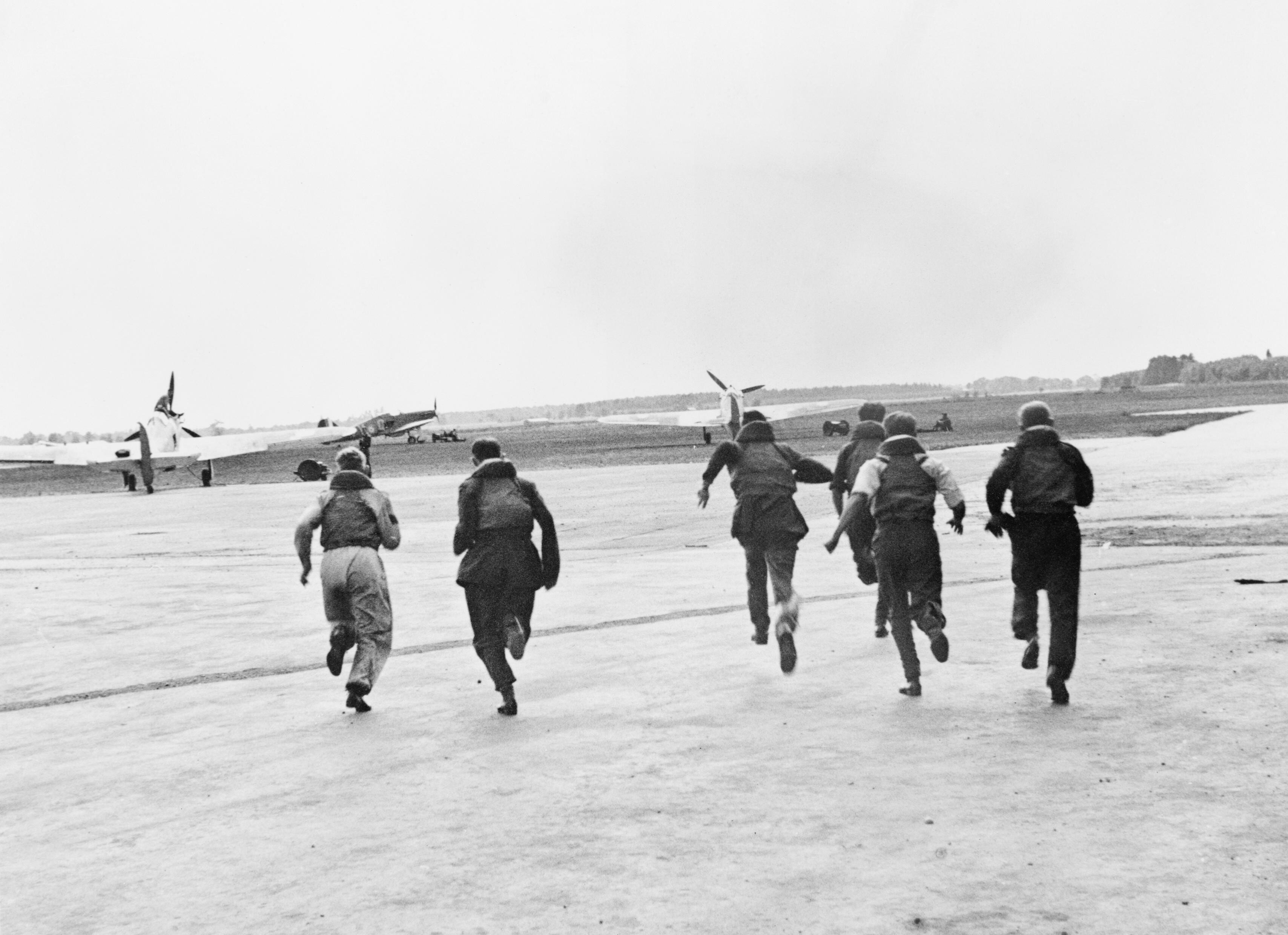 IWM caption : THE BATTLE OF BRITAIN 1940. Pilots seen running to their aircraft.